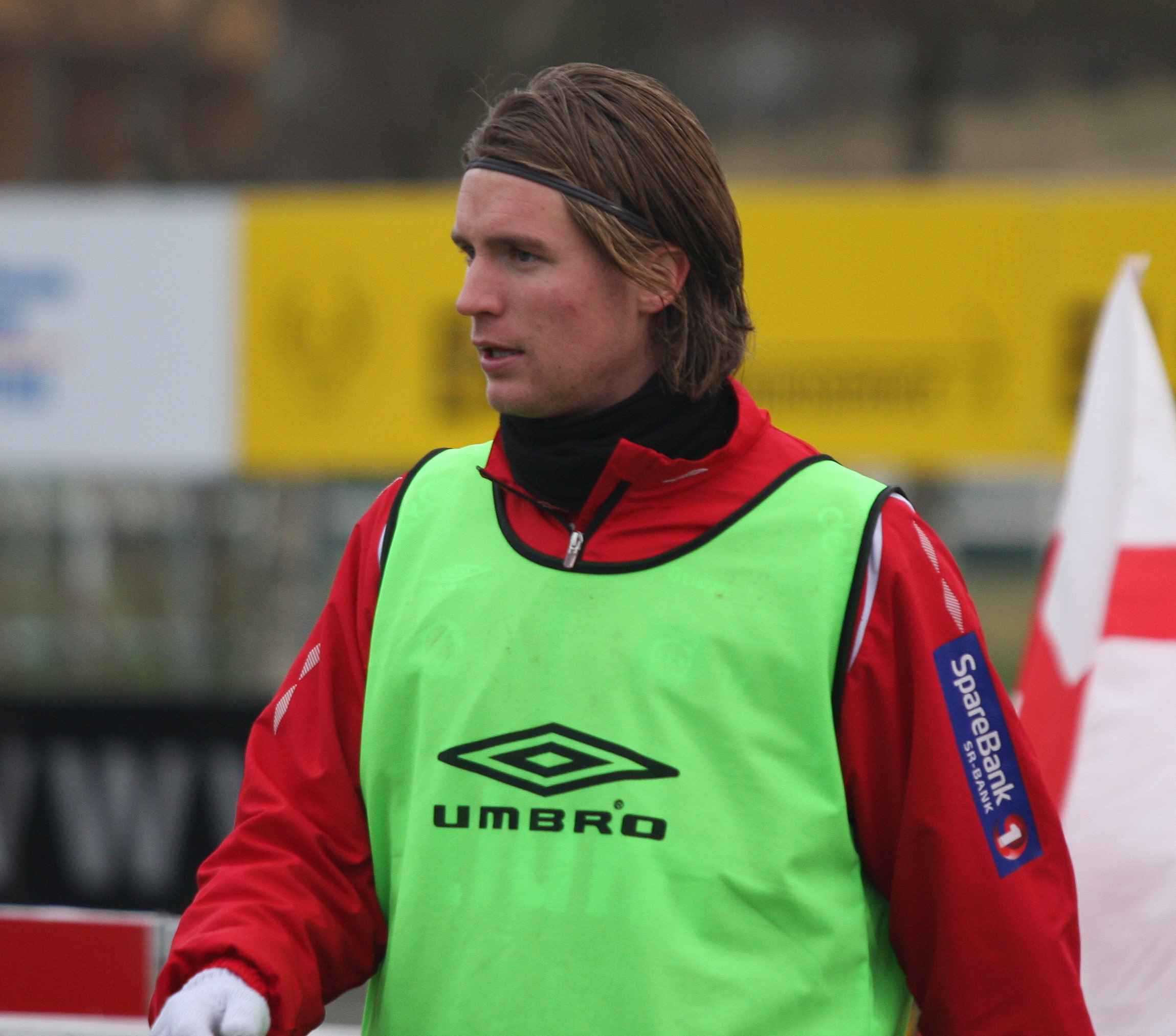 Christian Gauseth at Bryne stadion